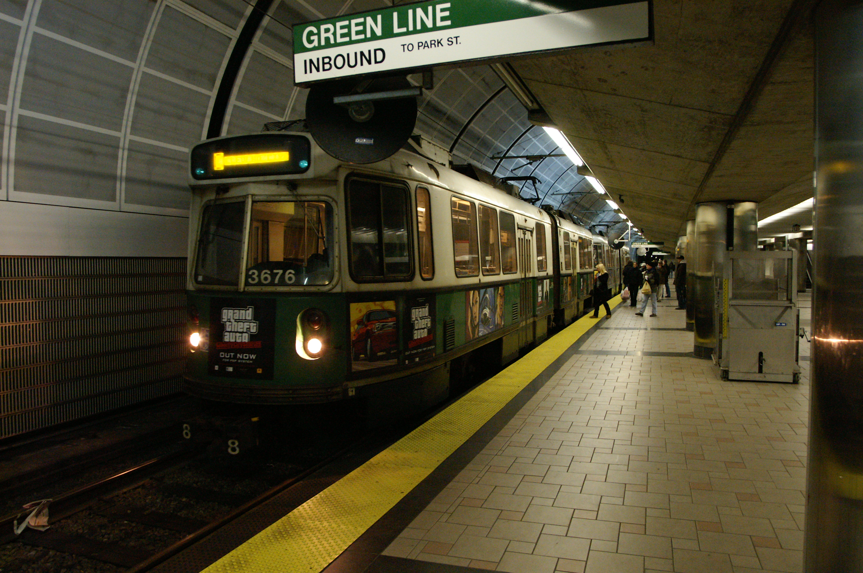 An inbound Green Line train arrives at North Station in February 2006